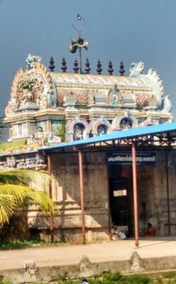 Tiruneelakkudi nilakandesvarartemple திருநீலக்குடி நீலகண்டேஸ்வரர்கோயில்